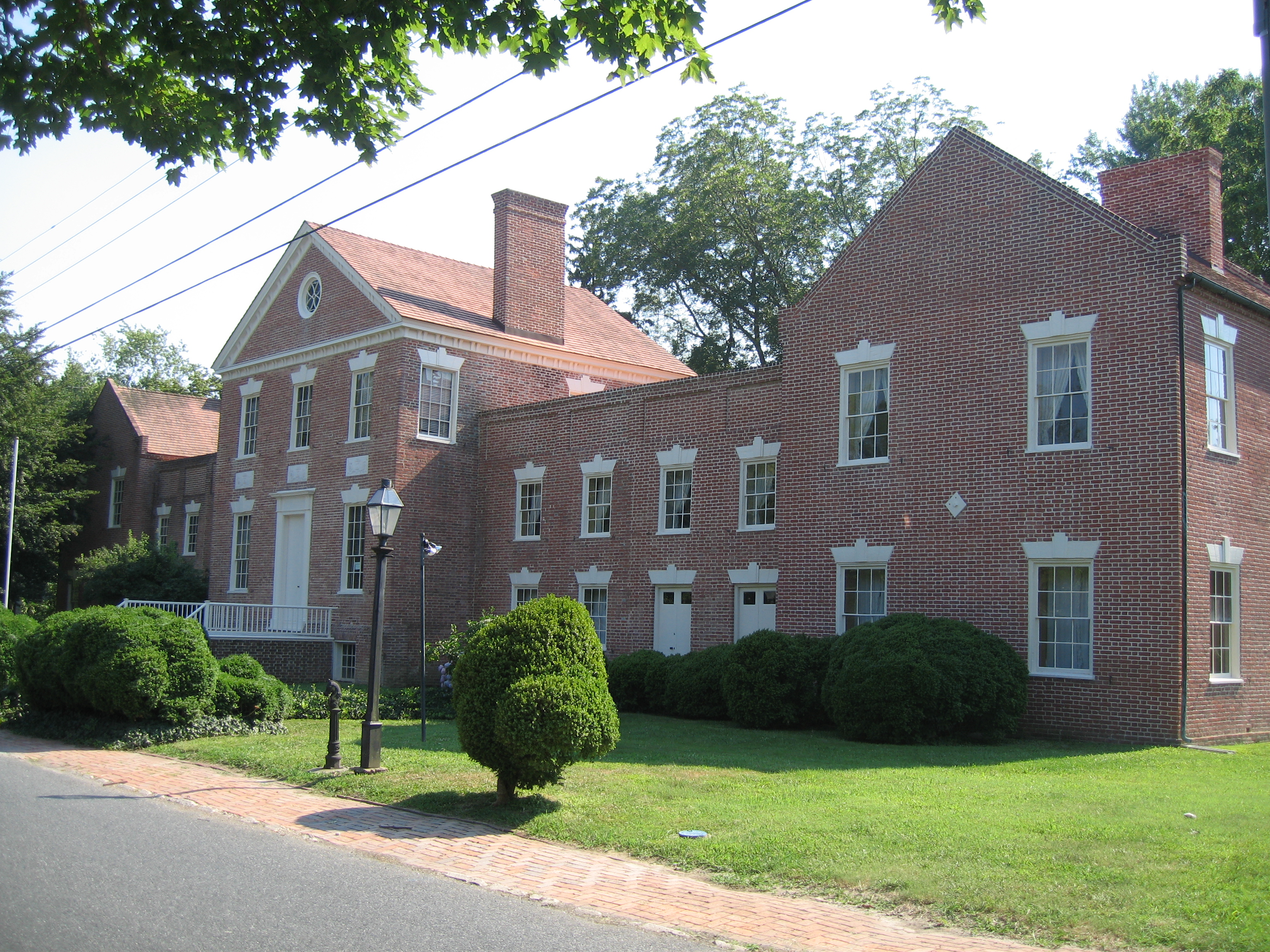 Front of Teackle Mansion, 11736 Mansion Street, Princess Anne, Maryland.